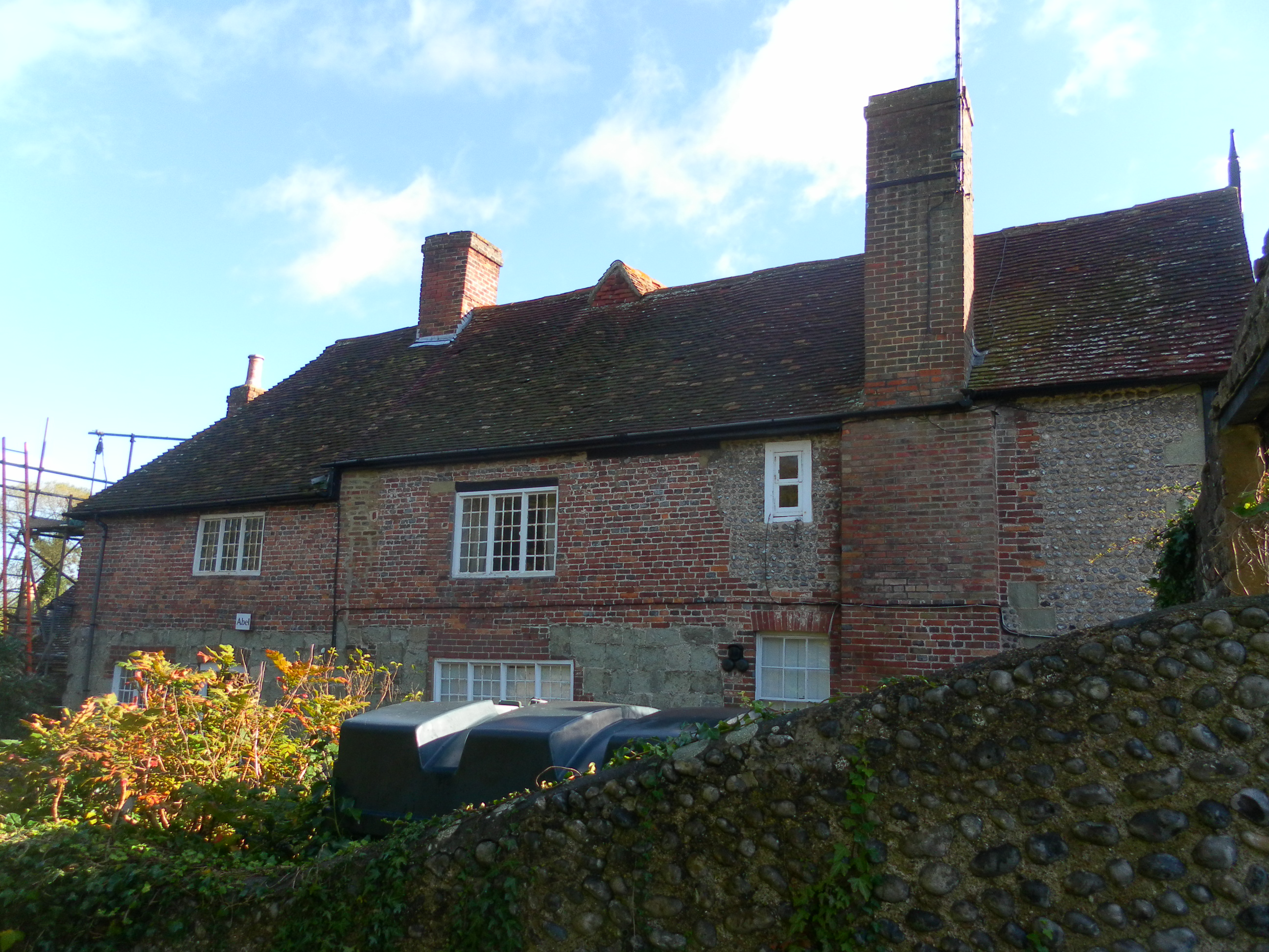 Langney Priory, Etchingham Road, Langney, Eastbourne, East Sussex, England. A 12th-century chapel forms part of the structure of this ancient priory. Listed at Grade II* by English Heritage (NHLE Code 1043639)